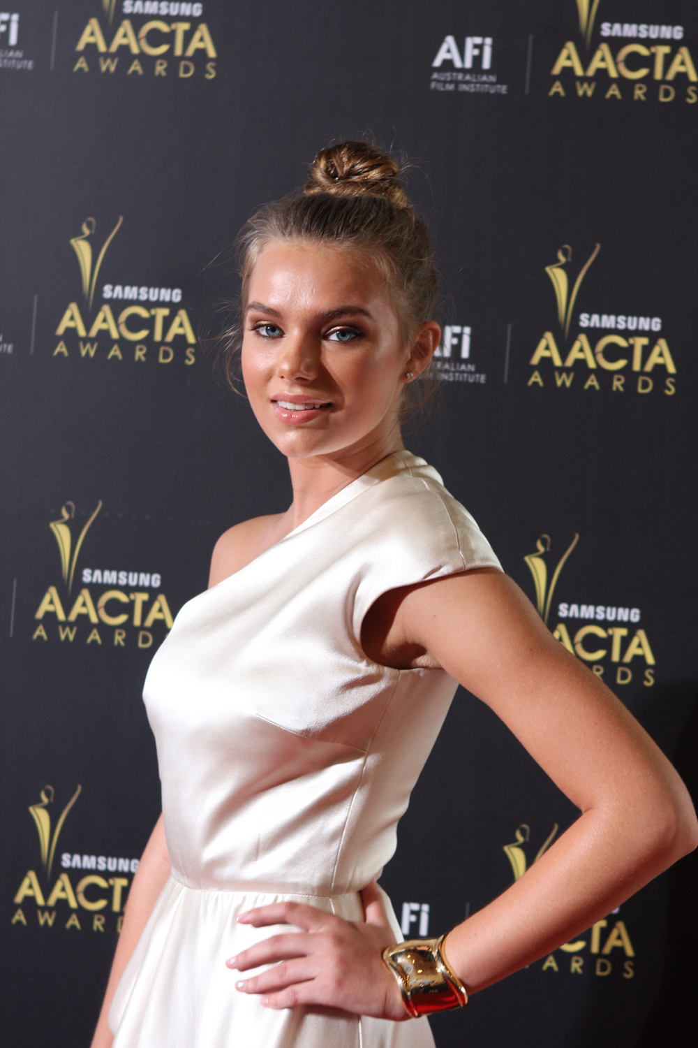 Australian actress Indiana Evans at the AACTA award 2012, Sydney, Australia